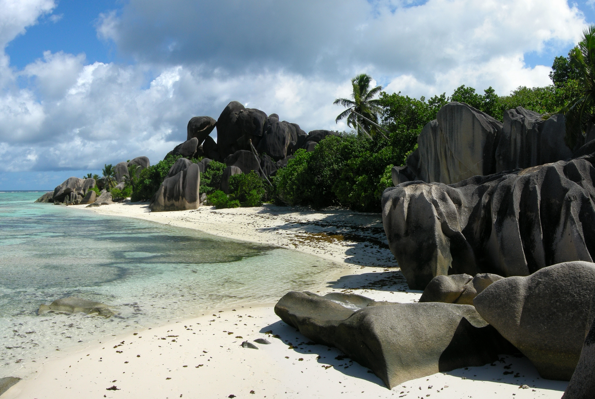 the spectacular beach of Anse Source d'Argent on the island of La Digue, Seychelles